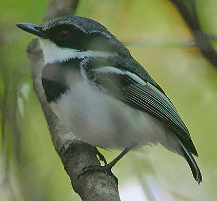 A male Forest Batis (Batis Mixta). Image taken in Arabuko-Sokoke Forest, Kenya.